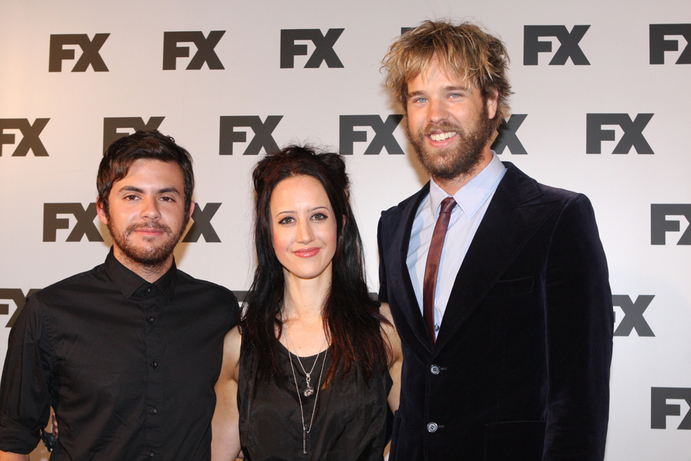 Left to right: Billy Russell, Jane Gazzo and Danny Clayton at Call Me Fitz - FX Event at Swifts, Darling Point, Sydney